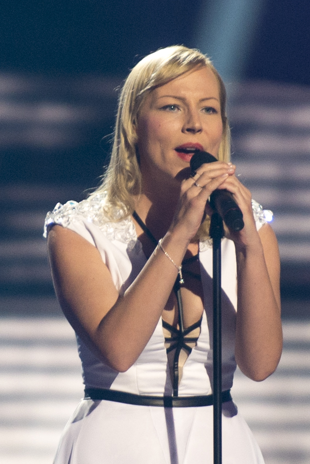 ManuElla representing Slovenia with the song "Blue And Red" during a rehearsal before the second semi final of the Eurovision Song Contest 2016 in Stockholm. (Help translate this text)